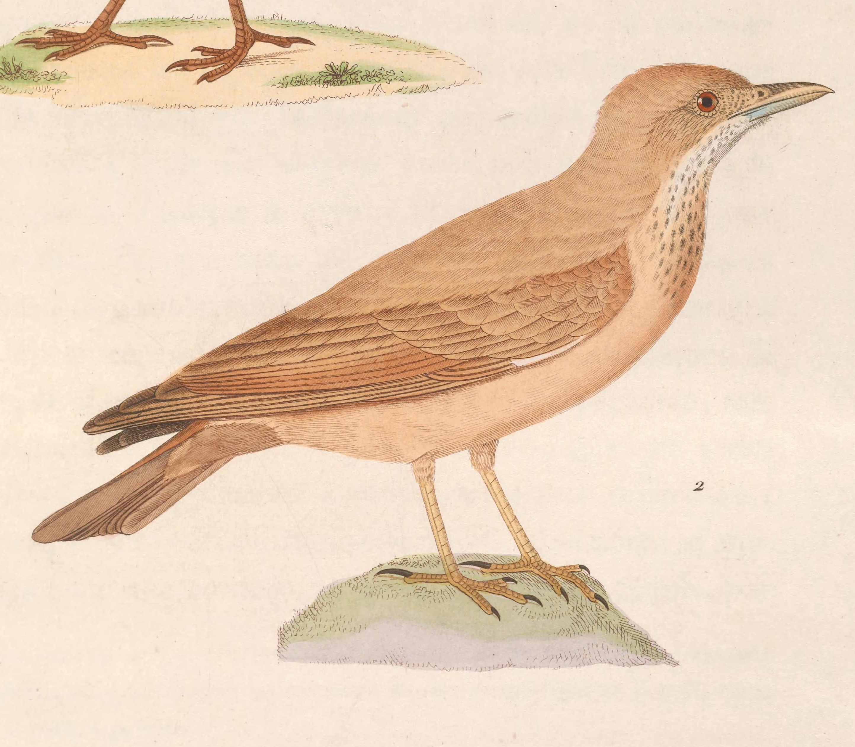 « Alauda isabellina » = Ammomanes deserti isabellinus (Subspecies of Desert Lark) - male